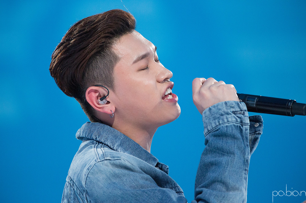 Crush South Korean singer